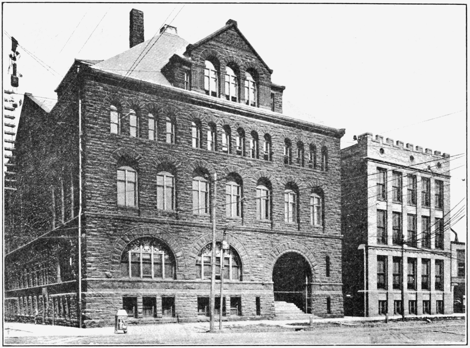 Western Reserve Medical School and physiological laboratory